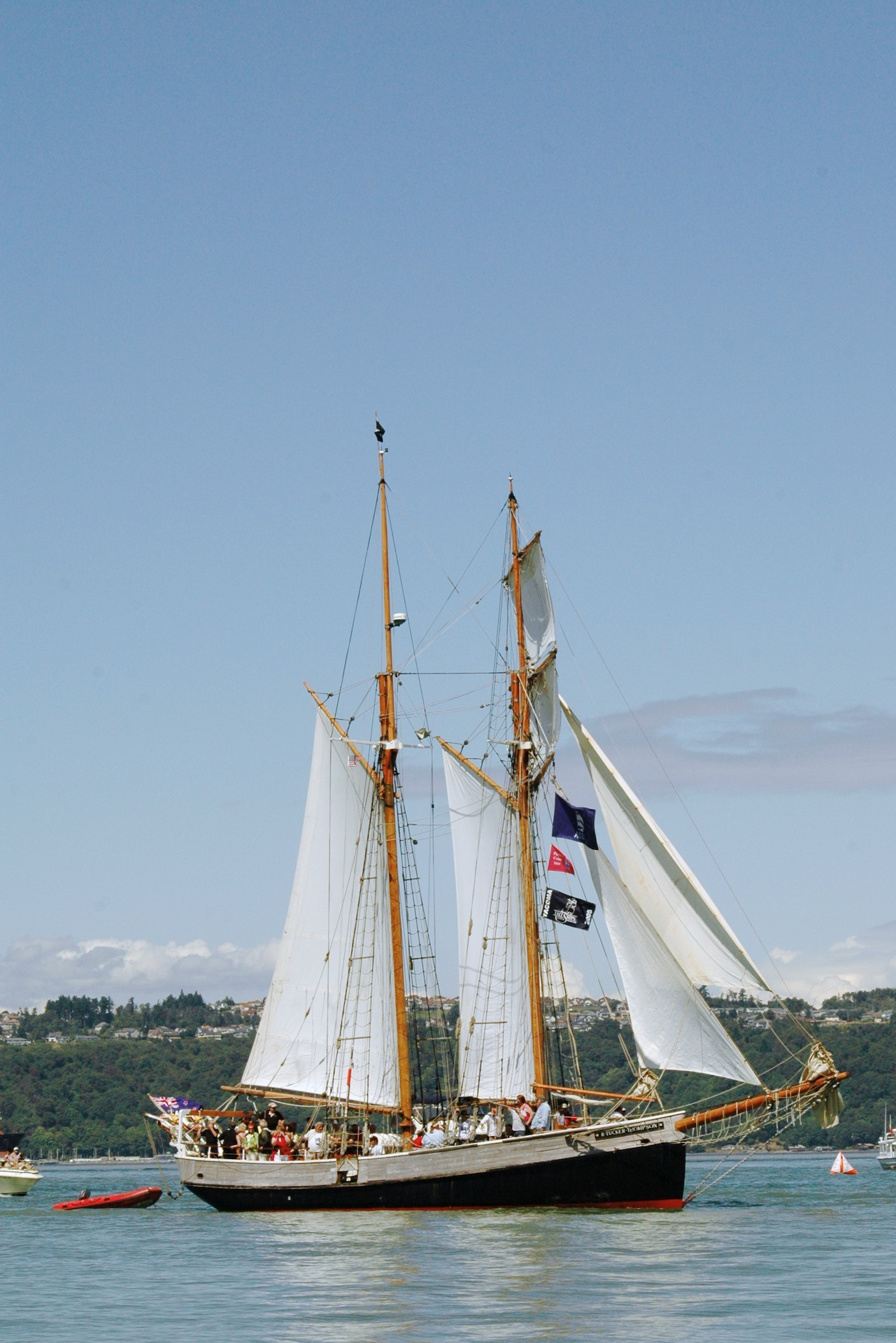 The R. Tucker Thompson participating in the 2005 Tacoma Tallships parade of sails.